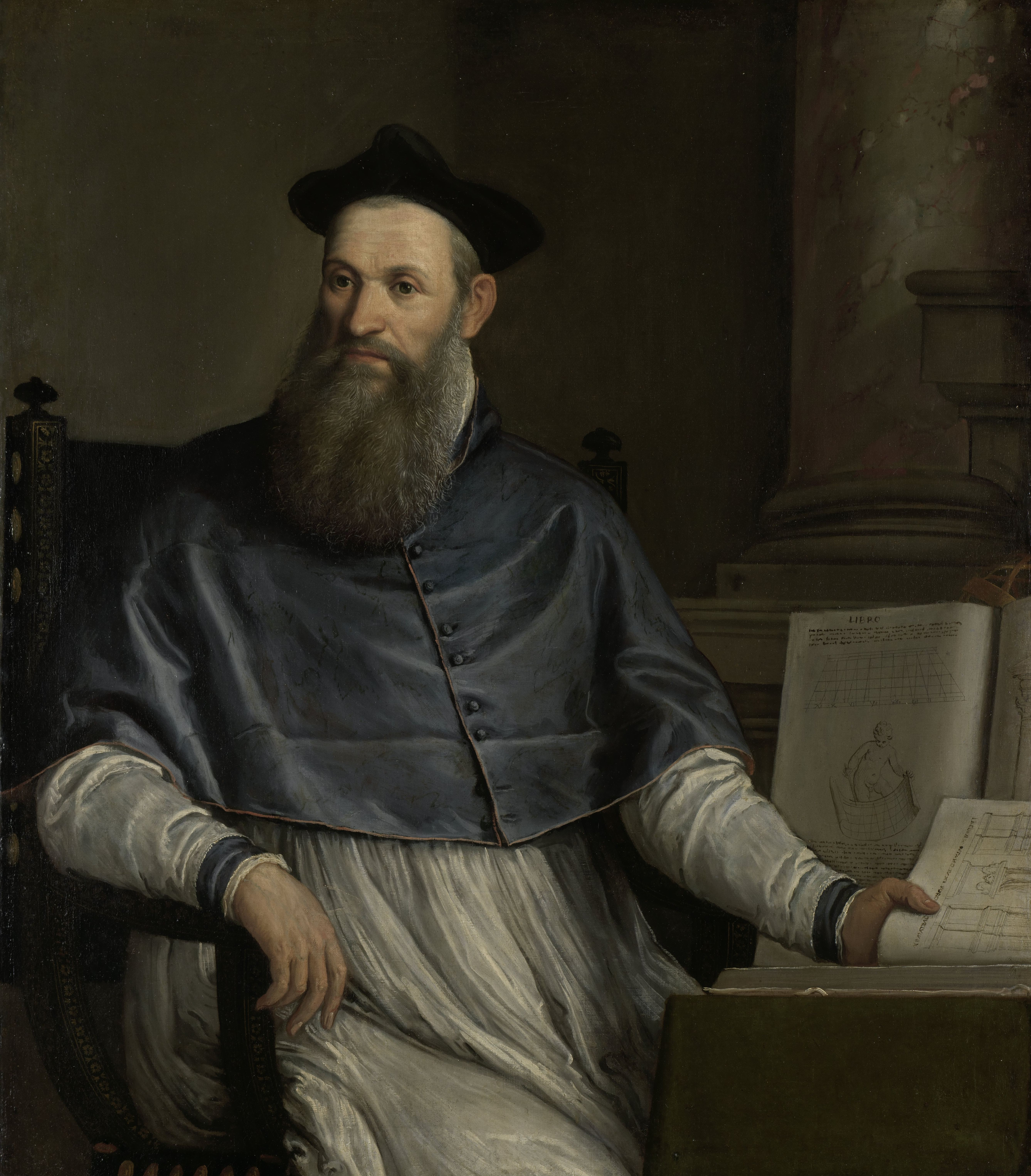 Daniele Barbaro is depicted dressed as patriarch with books on architecture by the ancient Roman Vitruvius, which he translated and which were illustrated by Andrea Palladio